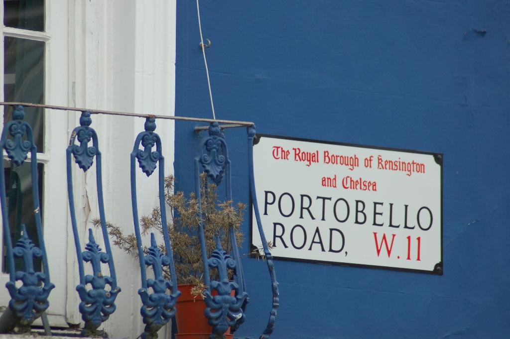 Portobello Road Street sign